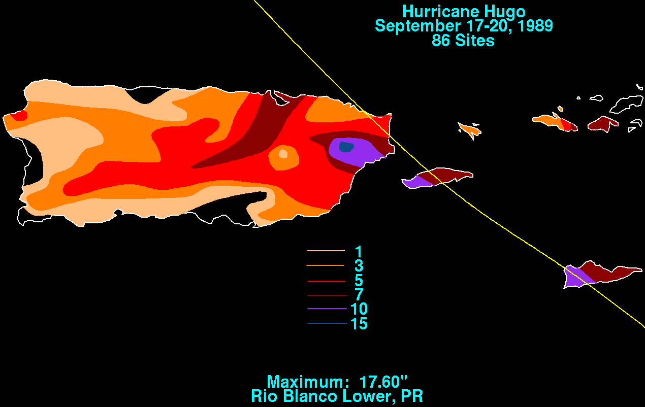 Rainfall produced by Hurricane Hugo in Puerto Rico during September 1989.